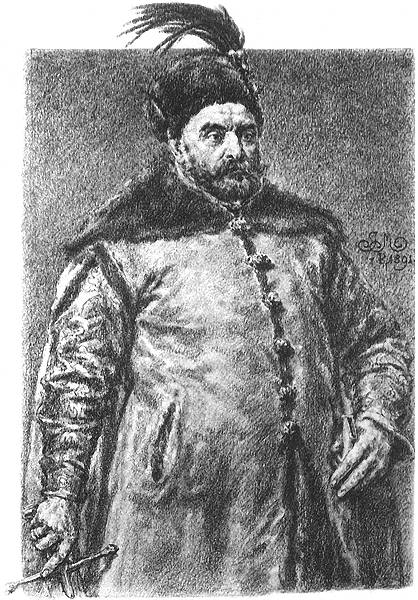 Stefan Batory